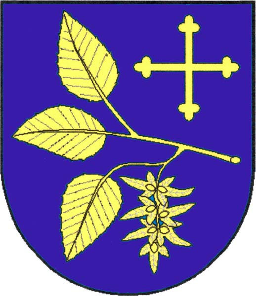 Municipal coat of arms of Habrovany village, Vyškov District, Czech Republic.